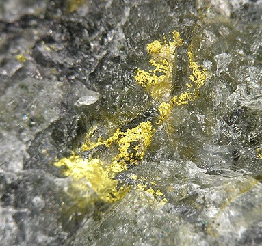 Gold Locality: Östra Hardmalmen Orebody, Falun Mine, Falun, Dalarna, Sweden (Locality at ) Size: 6.0 x 5.6 x 5.0 cm. A very rarely seen historic Gold specimen from Sweden. This specimen came to Rich Kosnar from noted Swedish collector, Stig Adolfsson in February of 1985. It features small patches of crystalline Gold sitting in quartzite rock, and according to the label, is associated with the rare bismuth, selenium sulfides "Laitakarite and probably Weibullite". Stig's original label comes attached to the box with this piece, (along with Rich Kosnar's typed number attached to the back of the specimen) and his information states that this piece is nearly a century old.